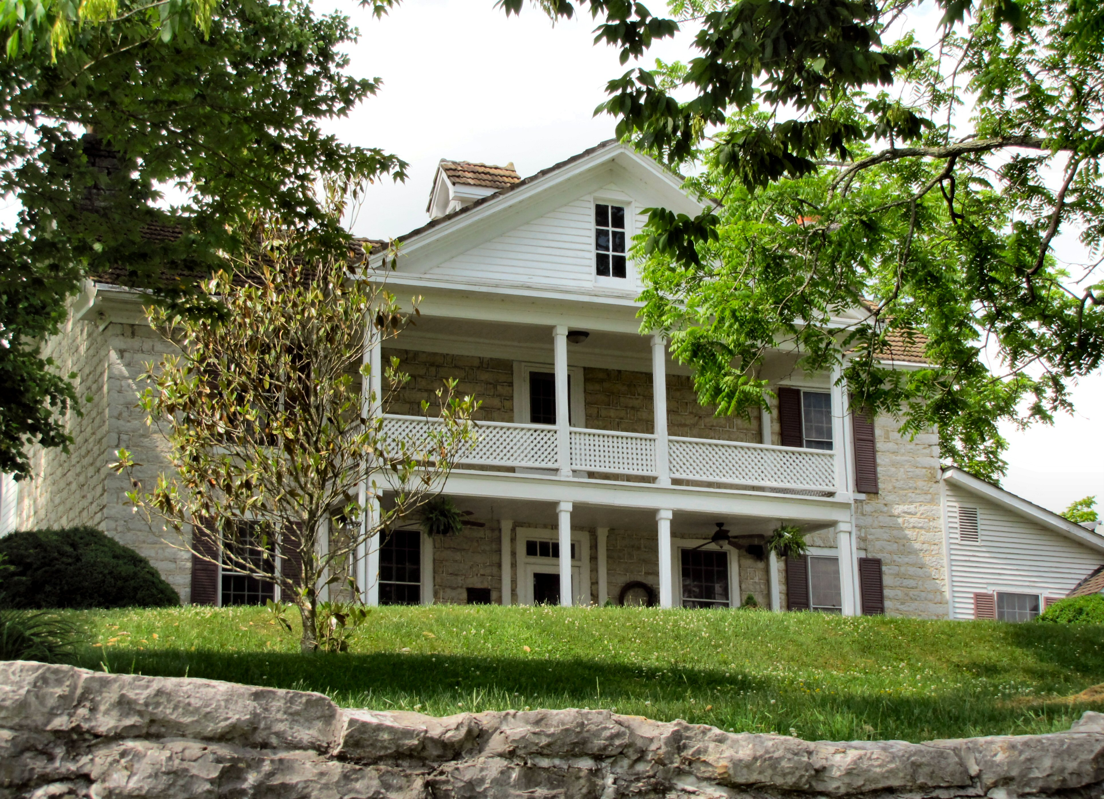 The McClain-Ellison House in Speedwell, Tennessee, United States. Built early settler Thomas McClain in the late 1790s, this house is now listed on the National Register of Historic Places. The front porch is a later addition.